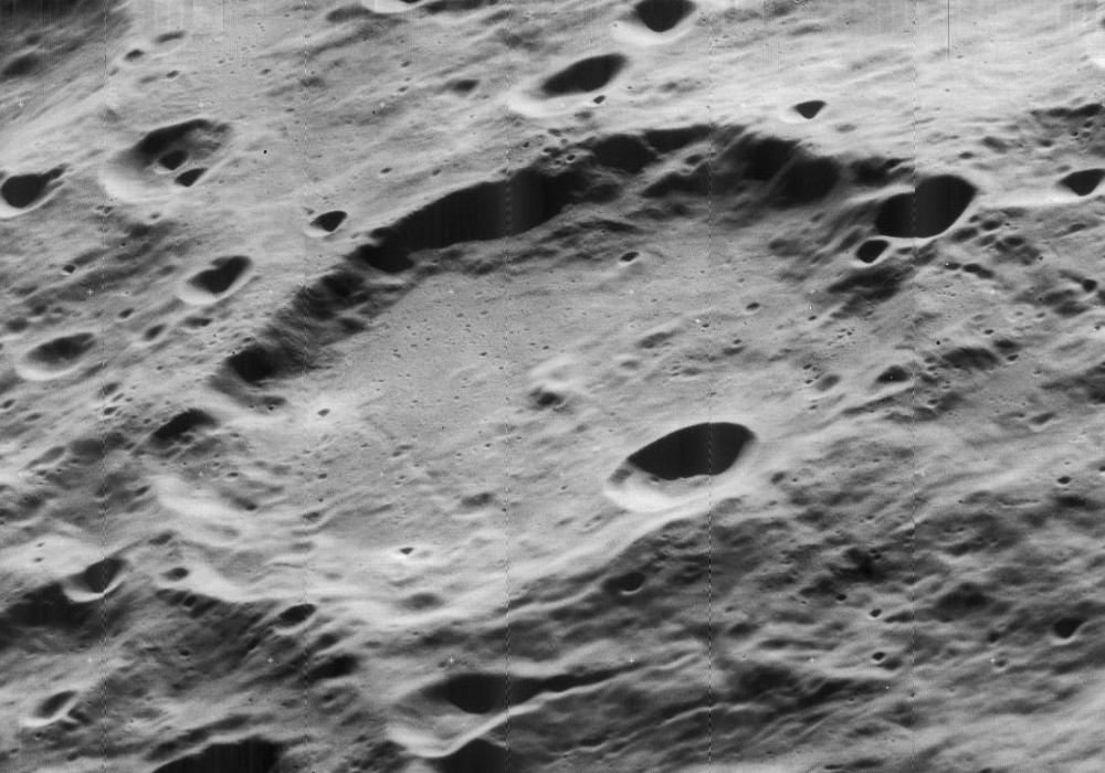 Oblique view of Buffon crater, on the far side of the moon, facing west.